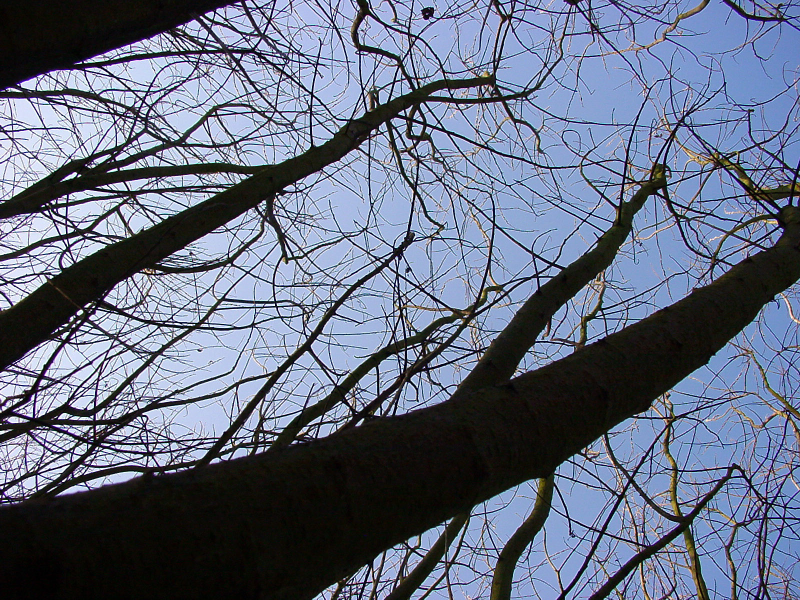 Coppice short rotation willow (clones), irrigated by water from the purification plant of Villeneuve d'Ascq (town, in northern France) for final purification of water (nitrates, phosphates). This coppice was used to produce wood chips to fuel a boiler-wood.